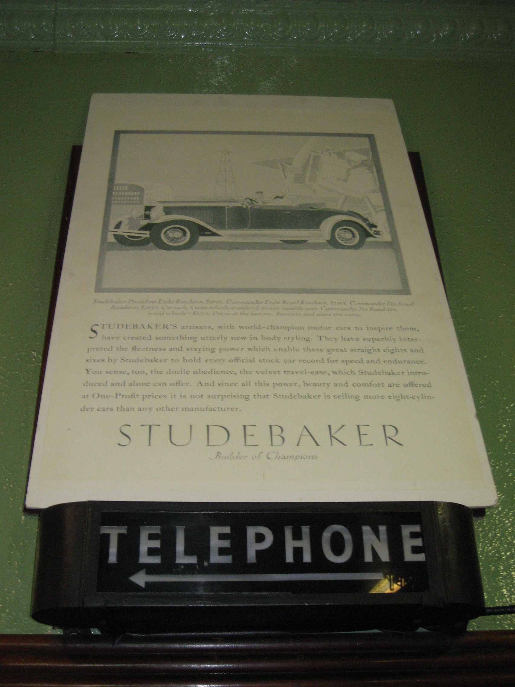 Studebaker sign, De Luxe Restaurant, King Street West, Dundas, Canada.